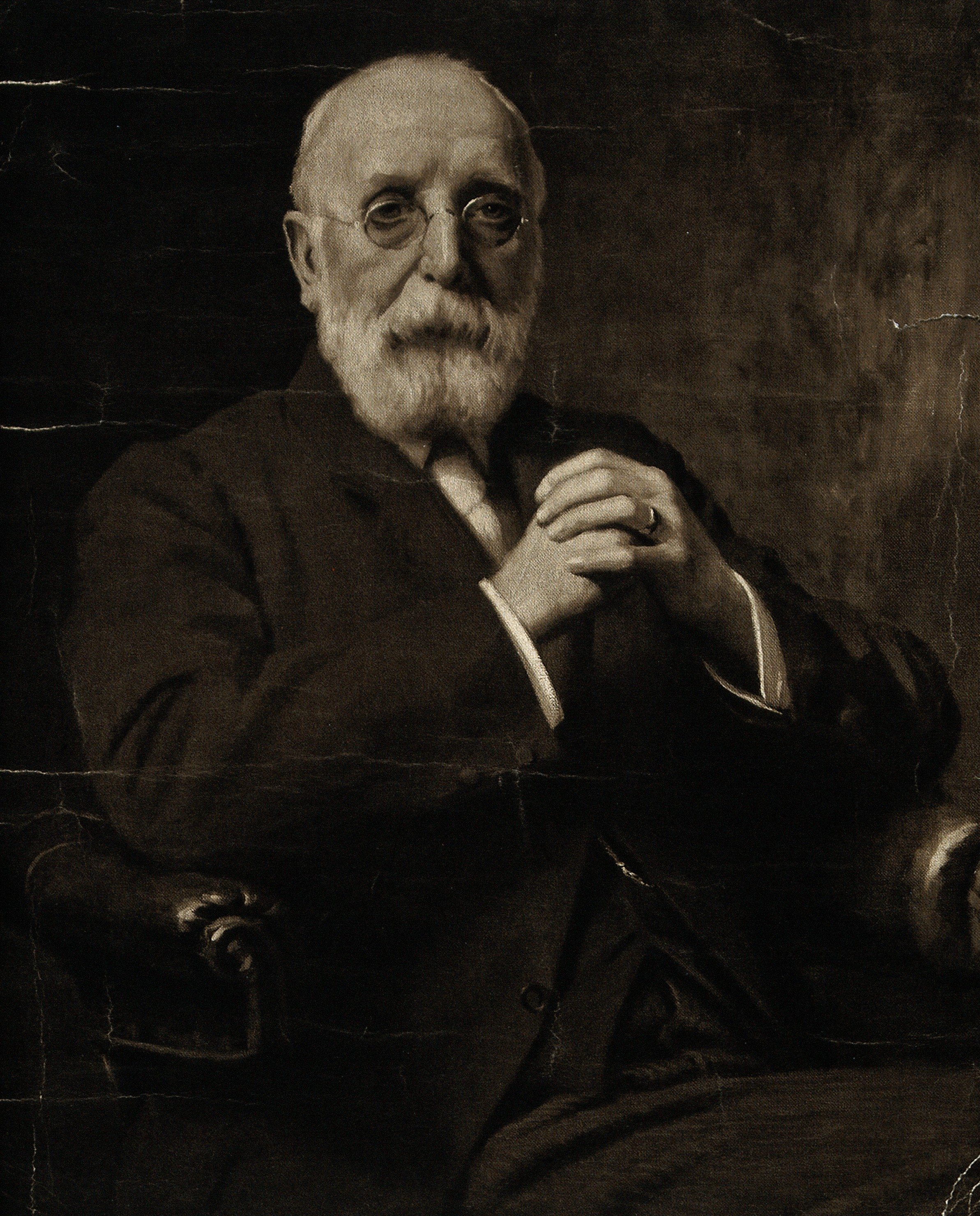 Benjamin Daydon Jackson. Photomechanical print after E. Moore. Iconographic Collections Keywords: portrait prints